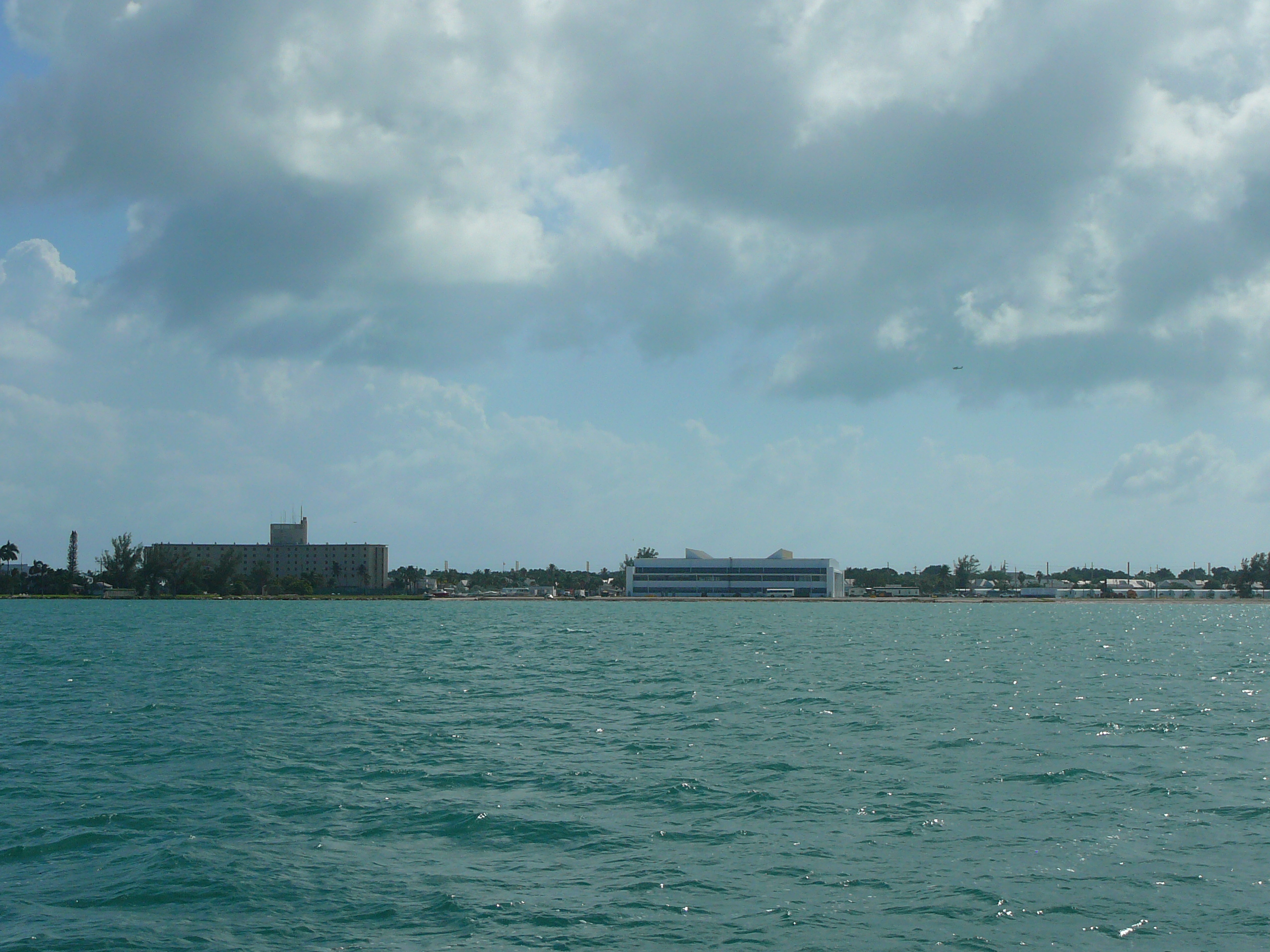 Trumbo Point on the island of Key West. (Part of the Naval Air Station)